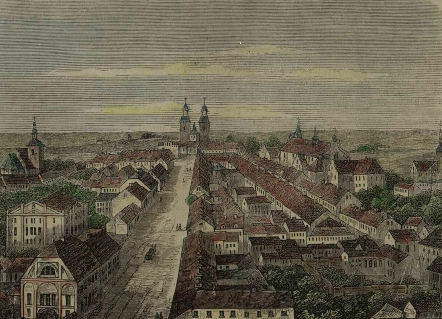 Gniezno. View from the tower of evangelical church